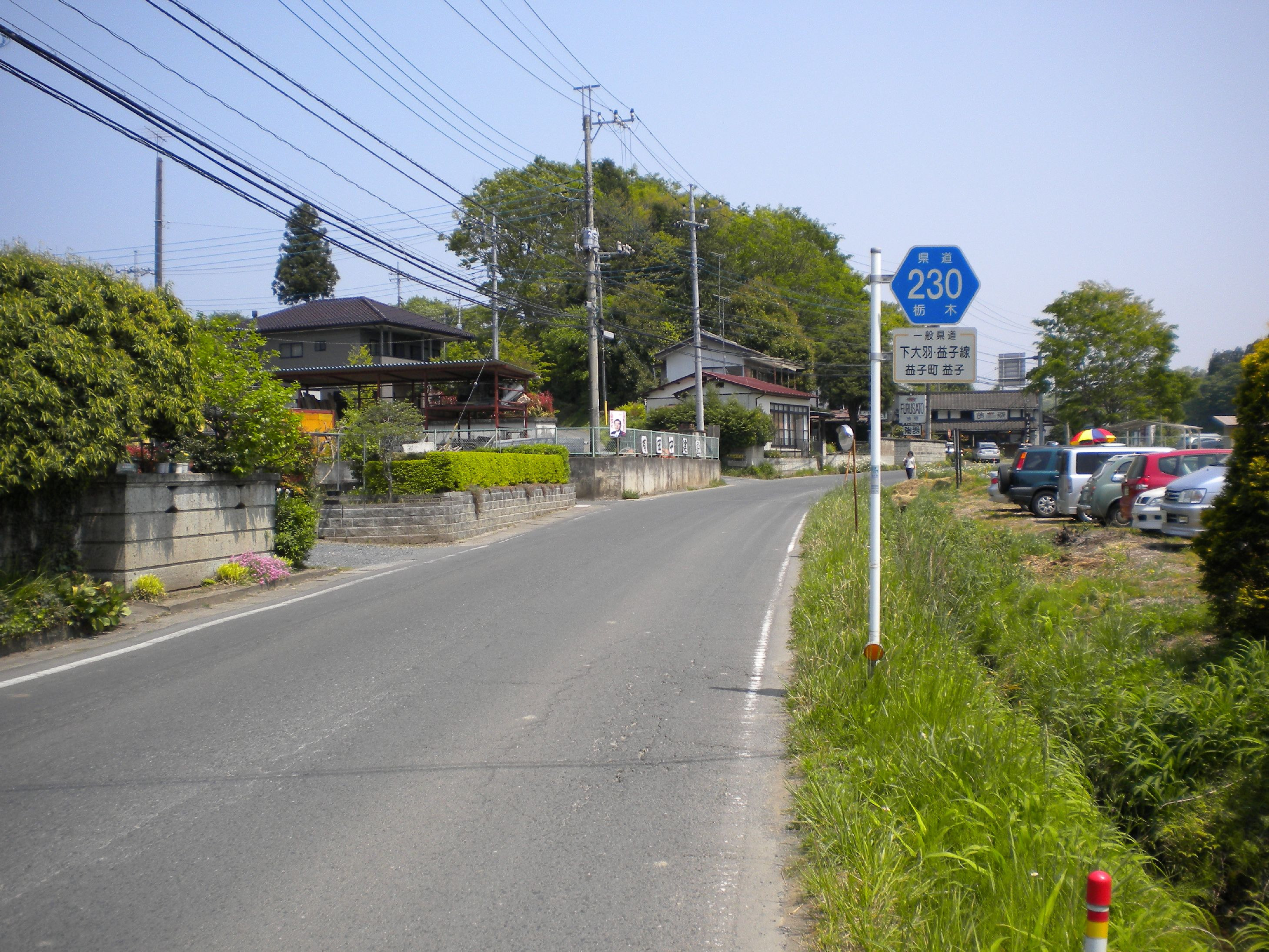 Tochigi prefectural road No.230 on Mashiko town